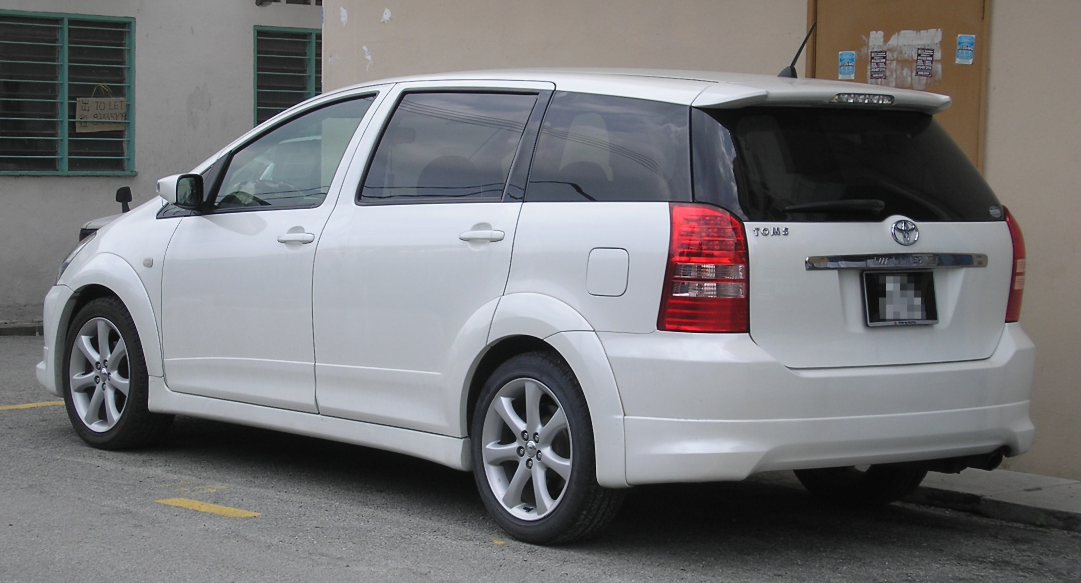 Rear-side shot of a first generation Toyota Wish, in Kajang, Selangor, Malaysia.